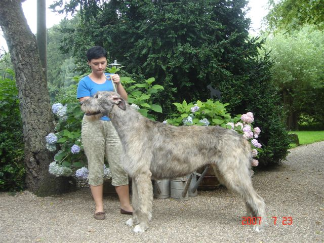 Irish wolfhound Mon Ami von der Oelmuhle